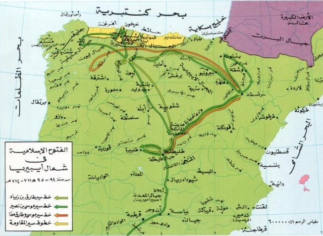 Map showing the Muslim armies conquest of northern Iberia.